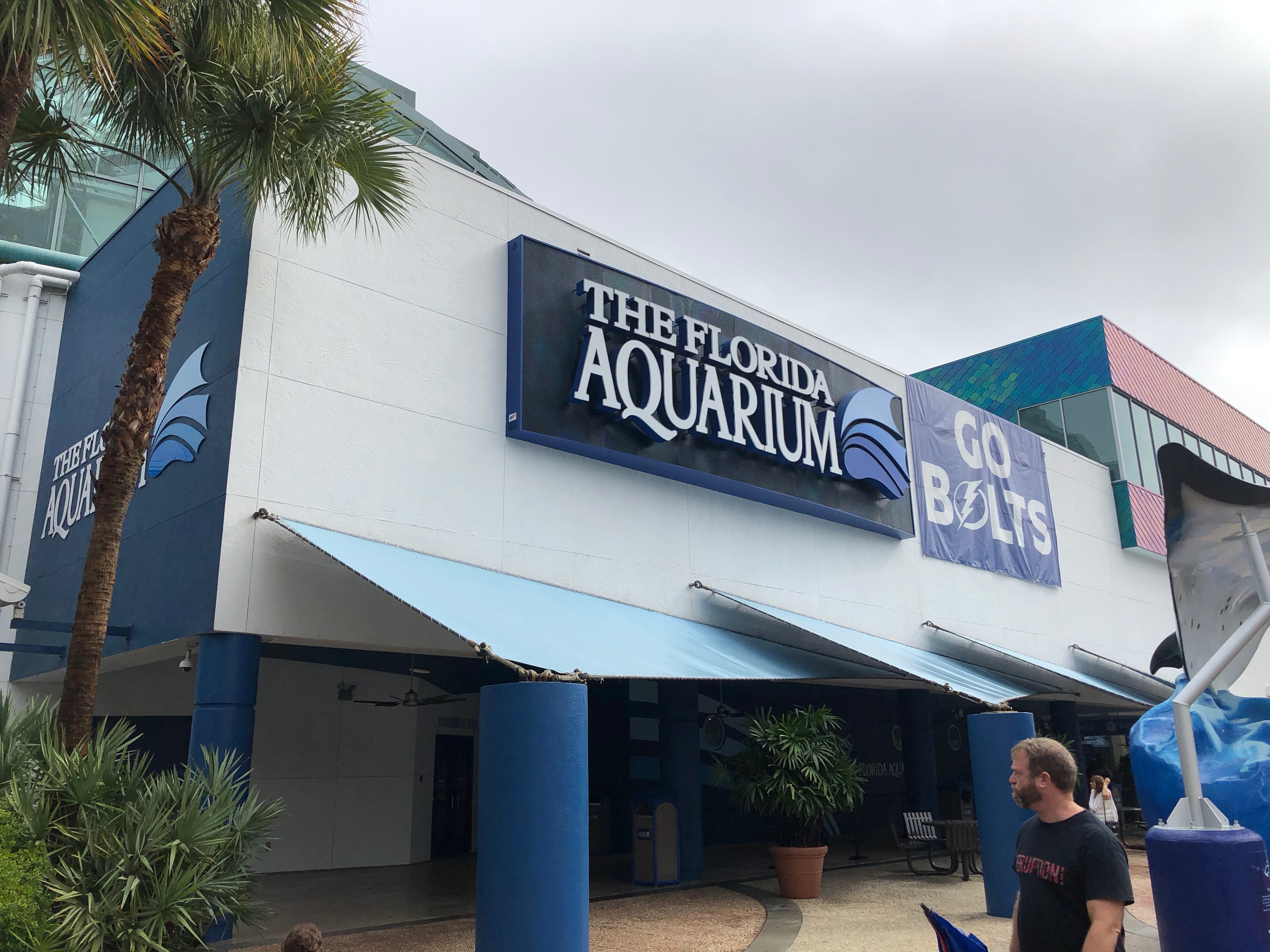 Tampa aquarium December 9, 2018. Image 1